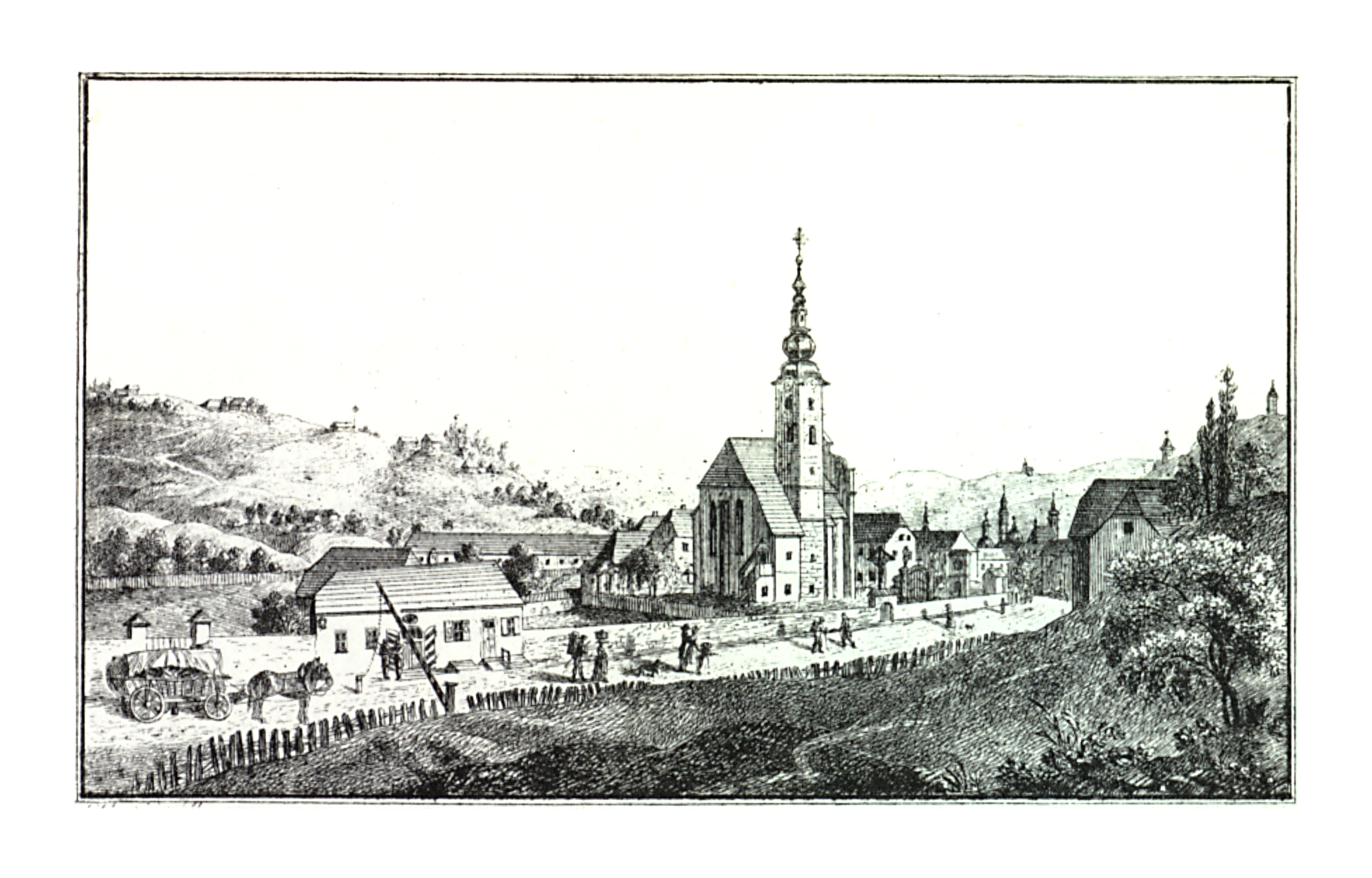 J. F. Kaiser - lithographirte Ansichten der Steyermärkischen Städte, Märkte und Schlösser, Graz 1824-1833 Joseph Franz Kaiser (1786–1859) Alternative names J. F. KaiserDescriptionAustrian printer and editorDate of birth/death 11 March 1786 19 September 1859Location of birth/death Graz (Styria) GrazAuthority control : Q1499963 VIAF: 30629353 ISNI: 0000 0000 3083 0153 LCCN: n87141671 GND: 129880159 NLP: A24960305 WorldCat creator QS:P170,Q1499963 . Scanprojekt Community Projektbudget 2012 This scan or this PDF-file was created within the GLAM-project Bookscanning, supported by Wikimedia Germany and Wikimedia Austria as a part of the community-project to capture books, documents and pictures which are not eligible to copyright or for which the copyright has expired. This document describes or depicts an object which is located in Austria today. Send requests for uncompressed scans to Hubertl. This work is in the public domain in its country of origin and other countries and areas where the copyright term is the author's life plus 100 years or less. You must also include a United States public domain tag to indicate why this work is in the public domain in the United States. This file has been identified as being free of known restrictions under copyright law, including all related and neighboring rights.